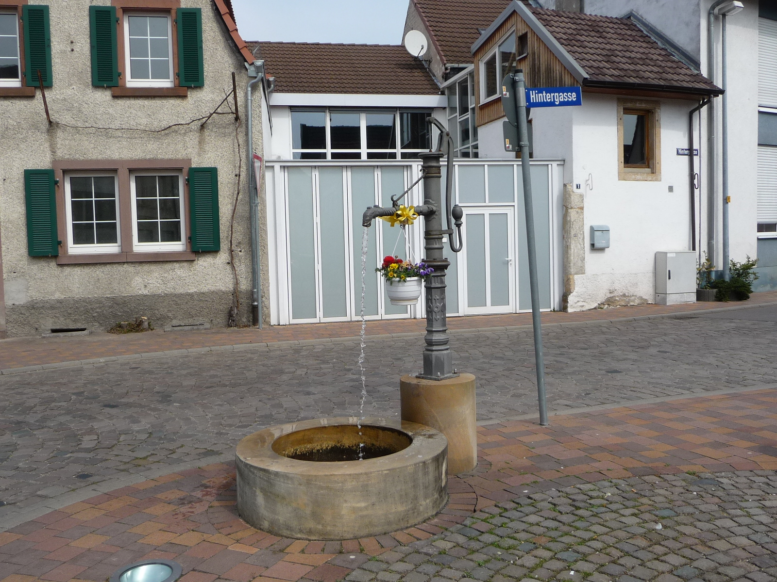 Niederkirchen (Rhineland-Palatinate), Germany